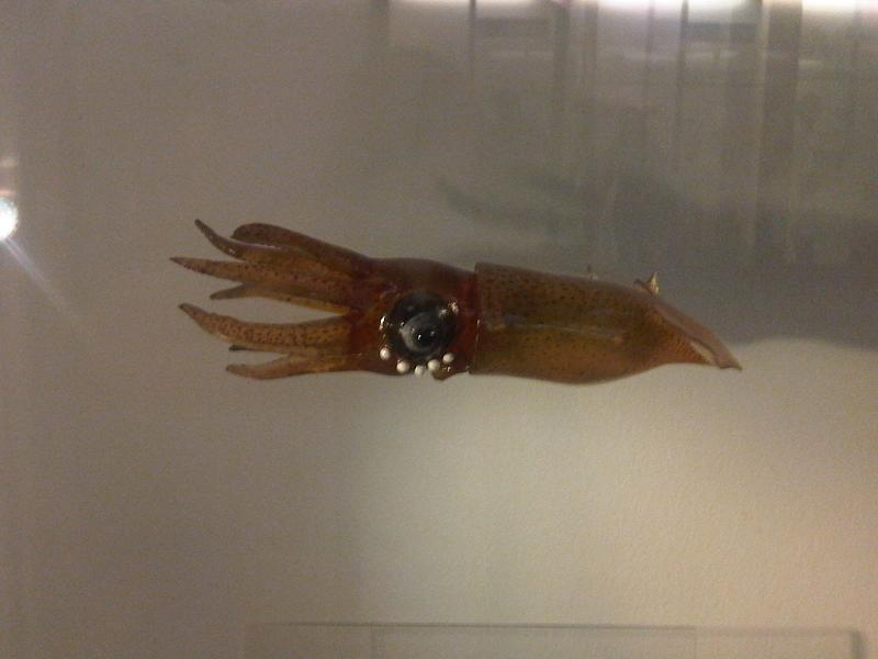 Lycoteuthis lorigera model at the Natural History Museum in London, England.